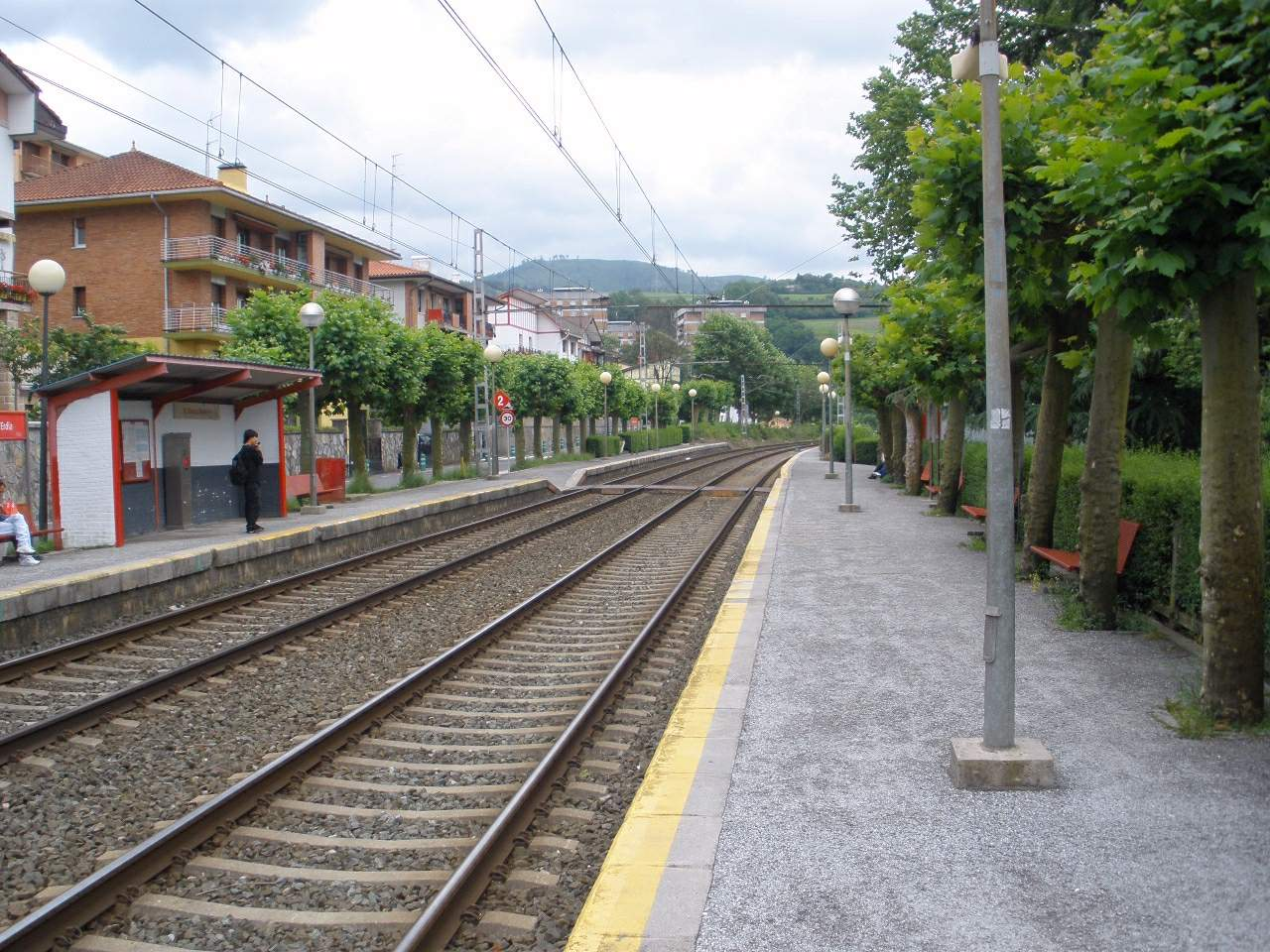 Estación de Andoain-Centro, Guipúzcoa.